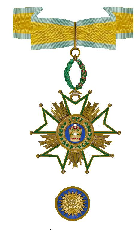 Order of the Crown, Commander, Persia 1970